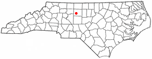 Category:North Carolina Dot Maps